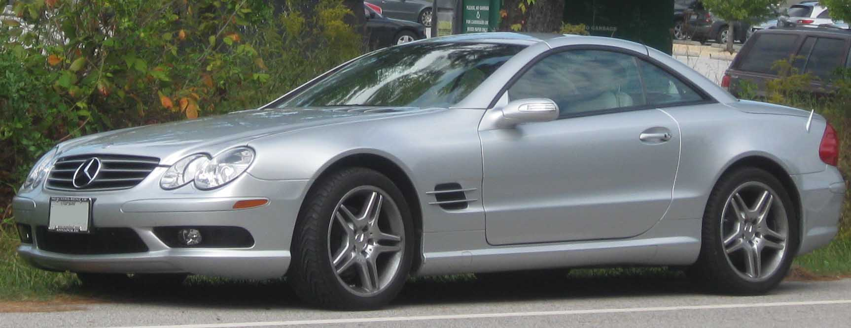 2003-2006 Mercedes-Benz SL500 photographed in College Park, Maryland, USA.